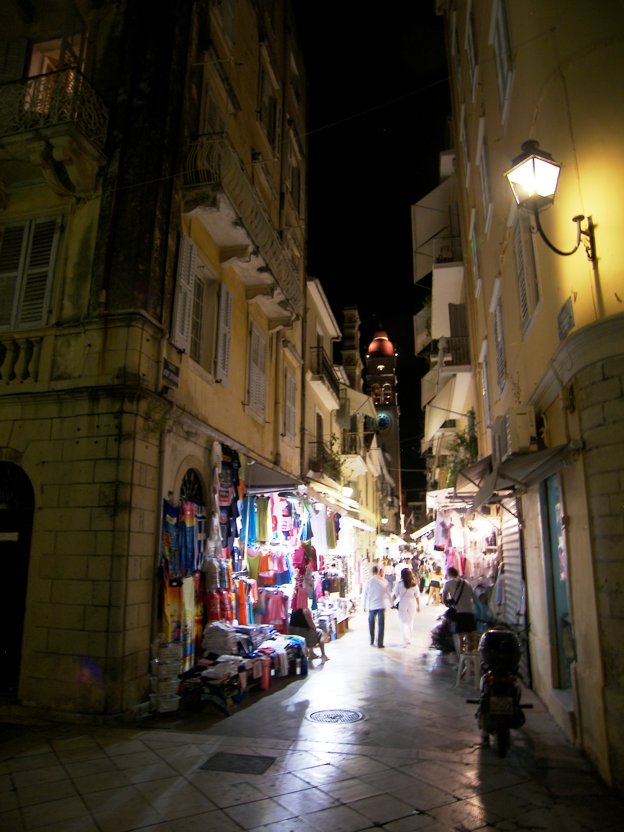 Please see filename